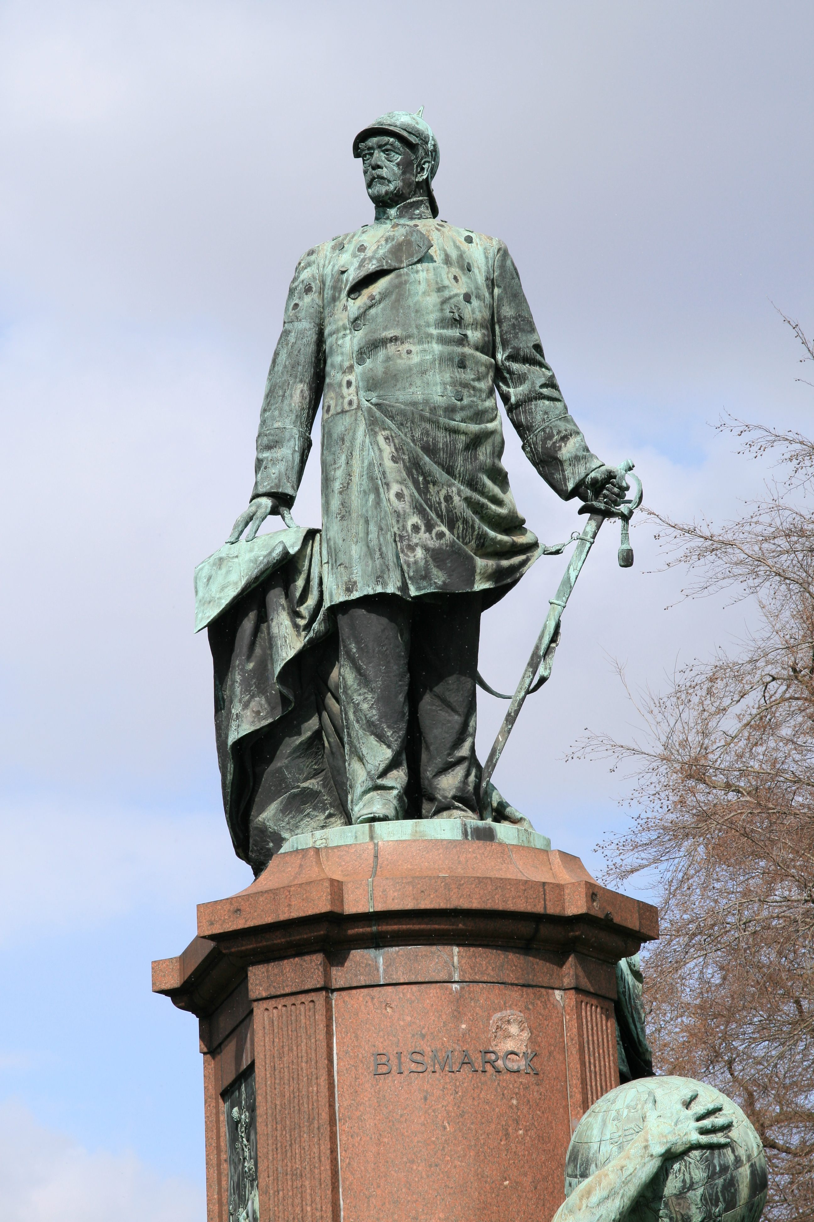 Bismarck monument in Berlin.